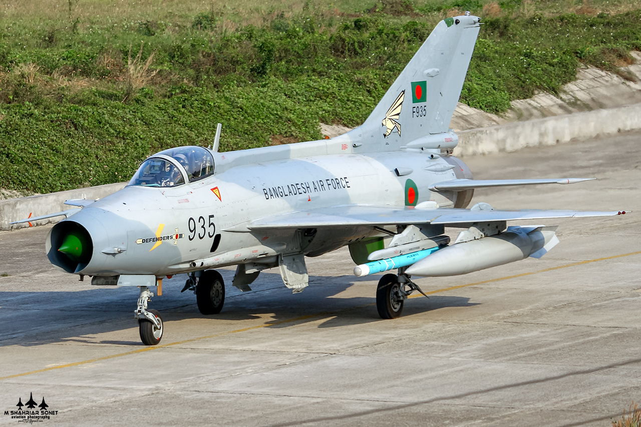 Bangladesh Air Force F-7BG during WINTEX